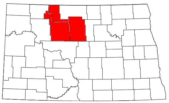 Locator map of the Minot Micropolitan Statistical Area in the northern part of the U.S. state of North Dakota.